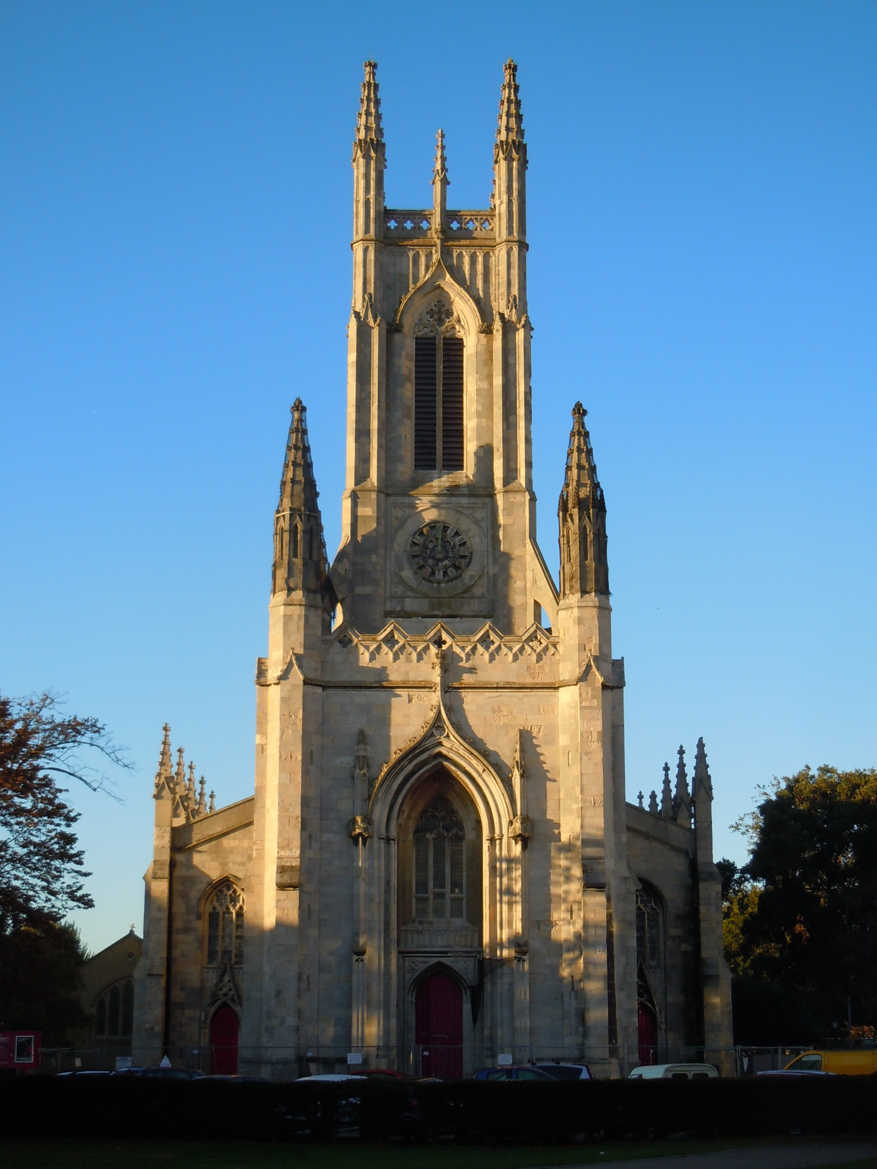 St Peter's Church, York Place, Brighton, City of Brighton and Hove, England.